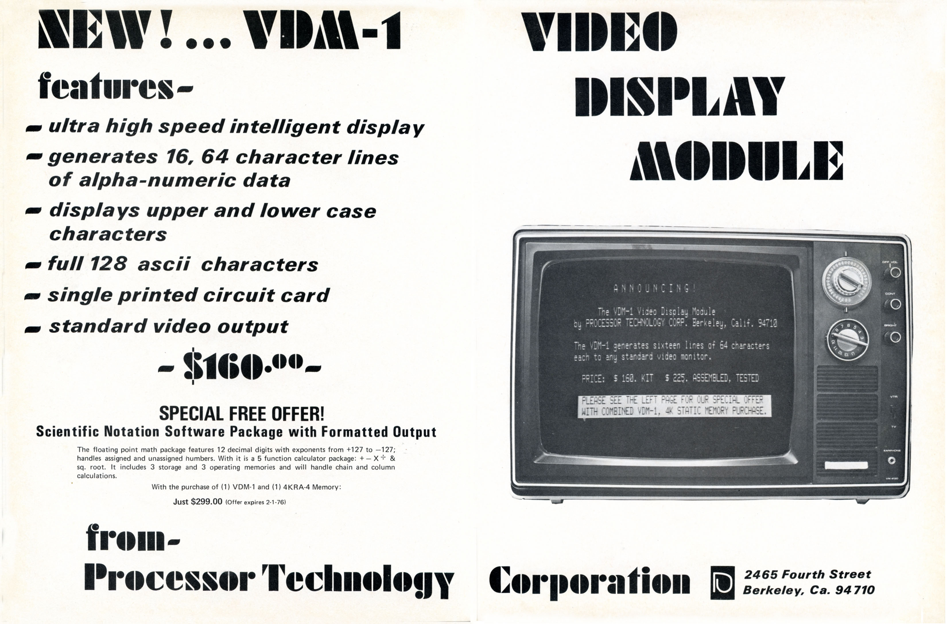 Processor Technology made one of the first video display boards for the Altair Computer, the VDM-1. This board was very popular and became the video section of the SOL-20 computer.